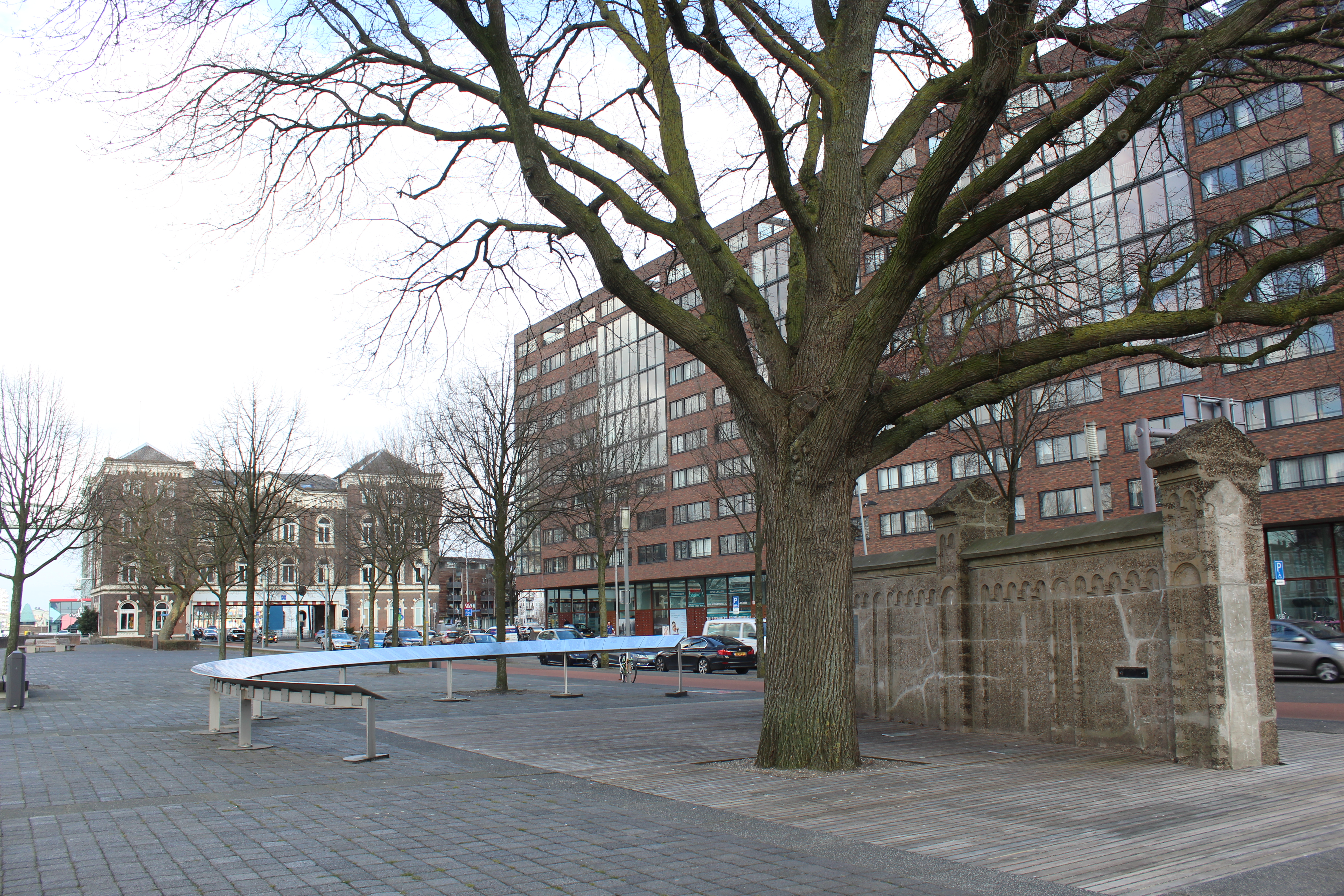 Loods 24 memorial and memorial for Jewish children in Rotterdam, Netherlands